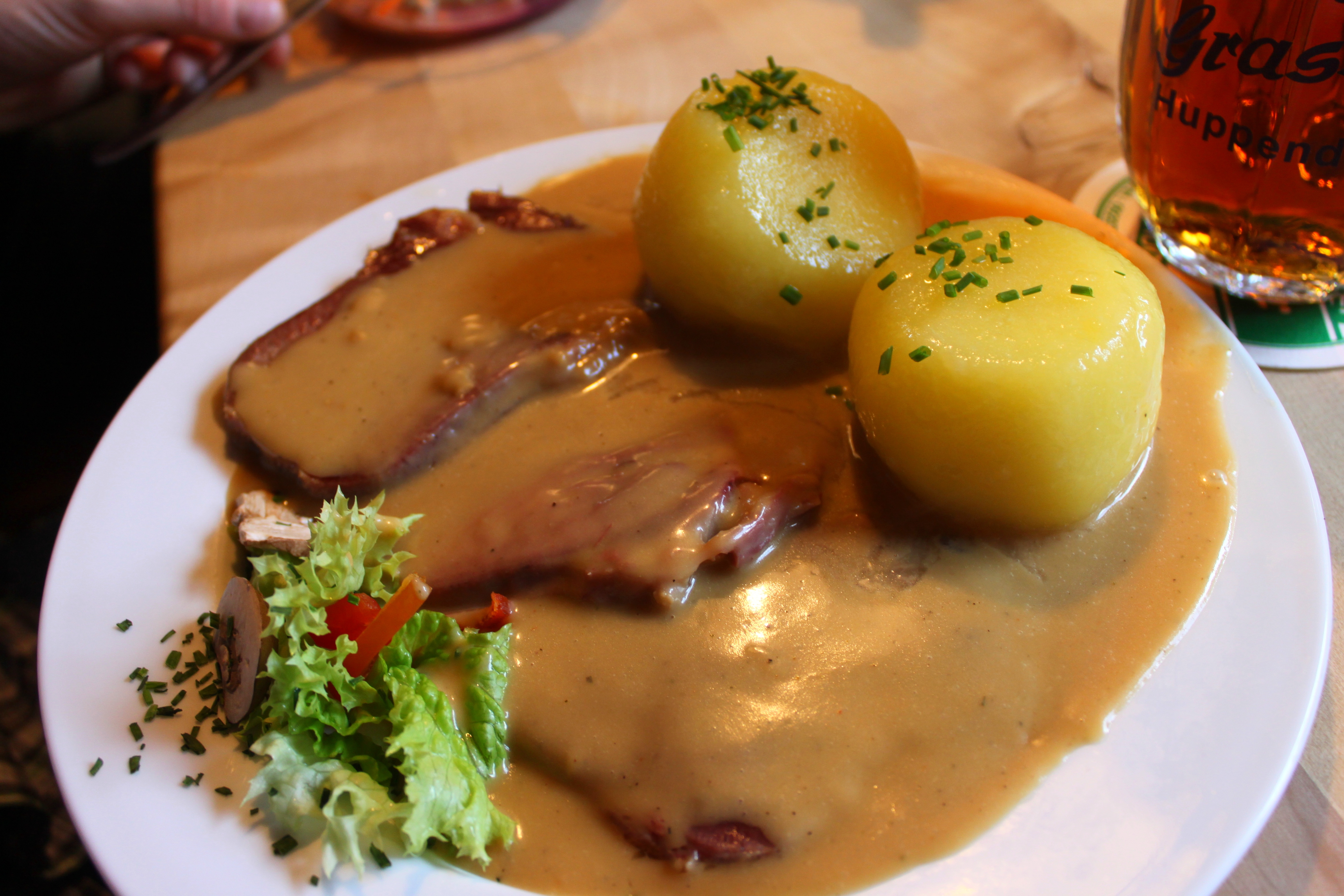 Beef tongue in Madeira sauce with potato dumplings